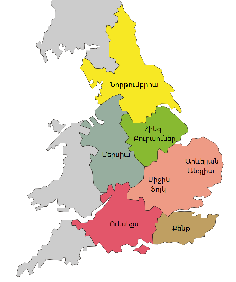 Earldoms of Anglo-Saxon England